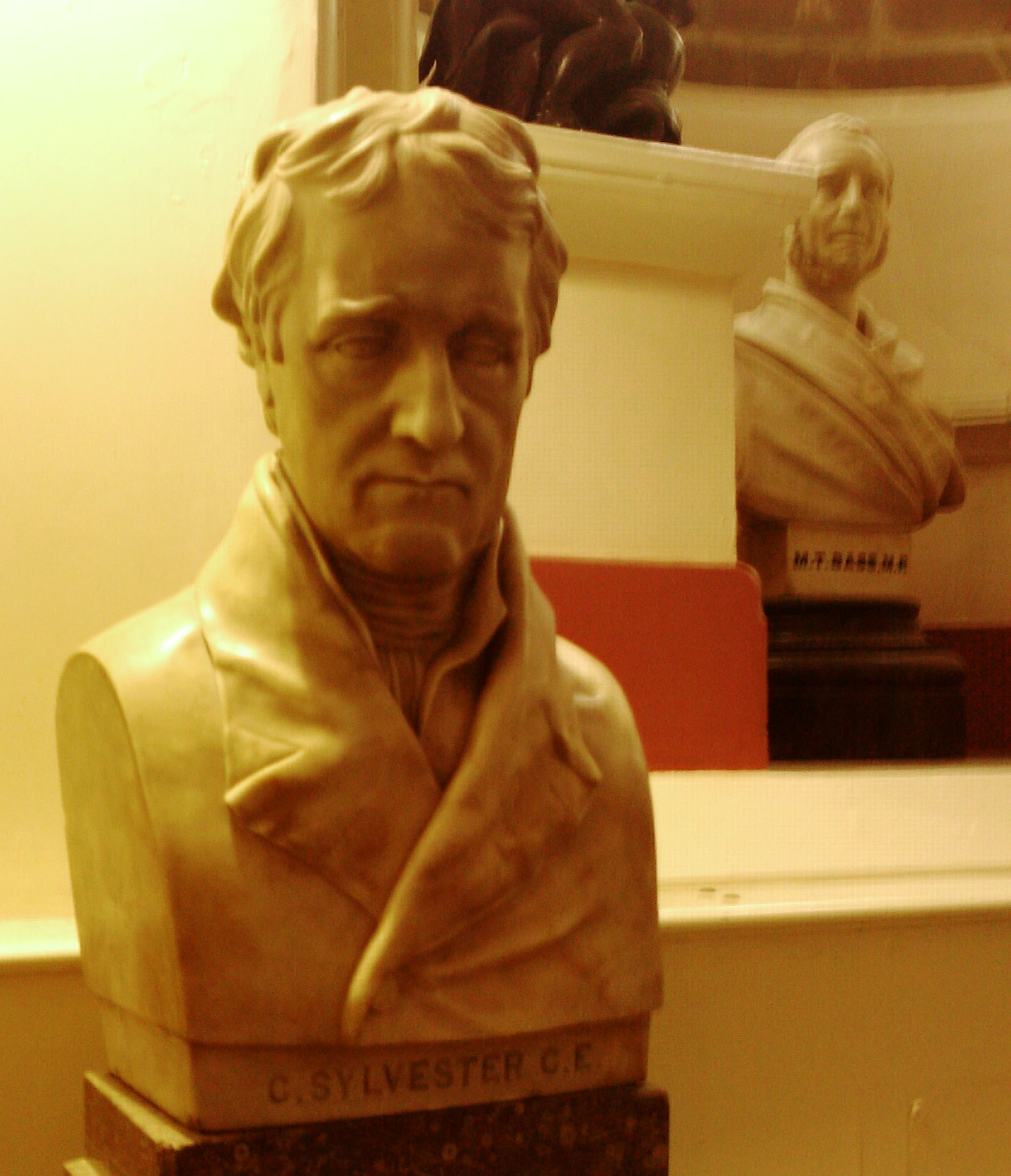 Charles Stylvester bust by Chantry in Derby Museum